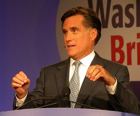 Mitt Romney in 2007 in Washington, DC at the Values Voters conference